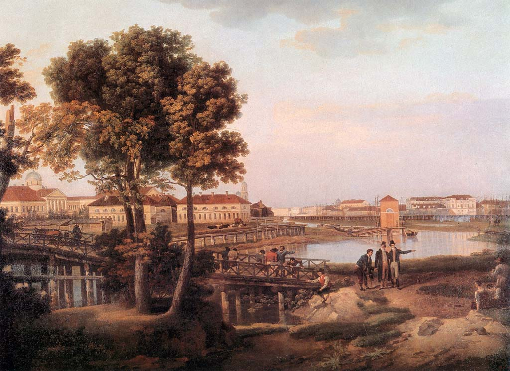 Semyon Shchedrin. View of Petrovsky Island in Saint Petersburg (1811).